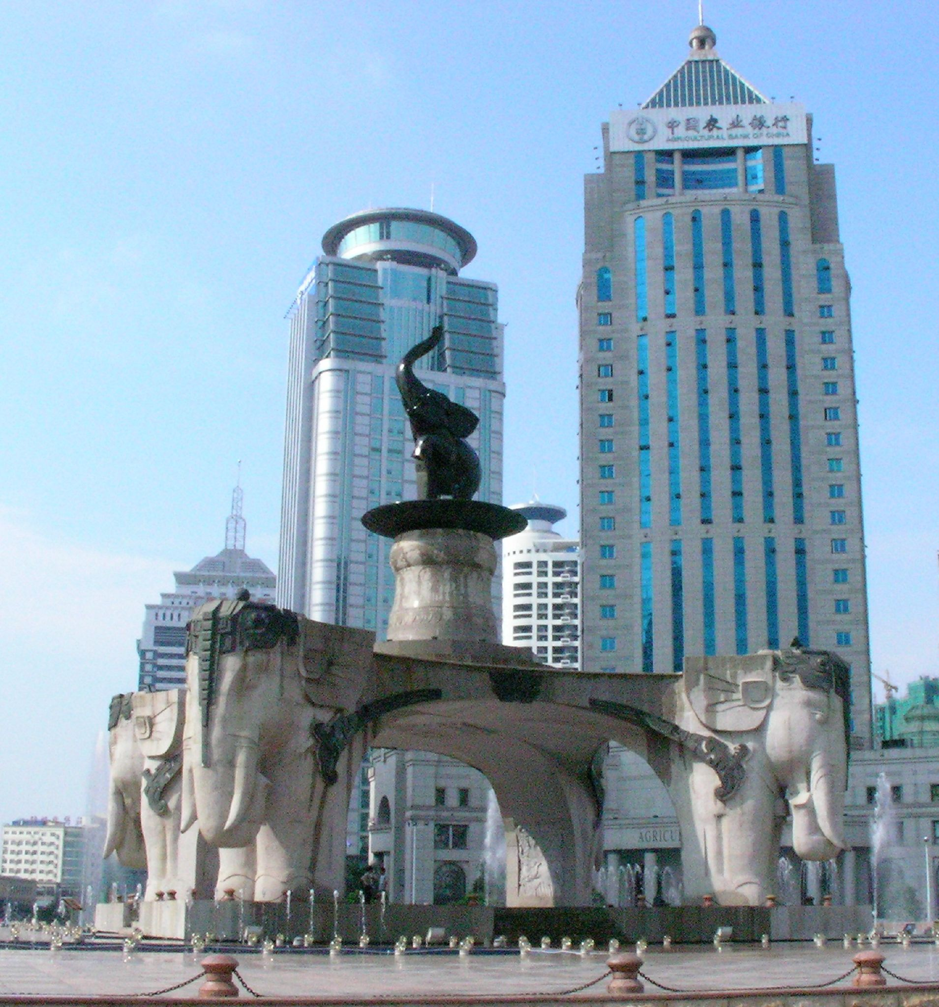 an elephant fountain at minzu dadao (national avenue), Nanning